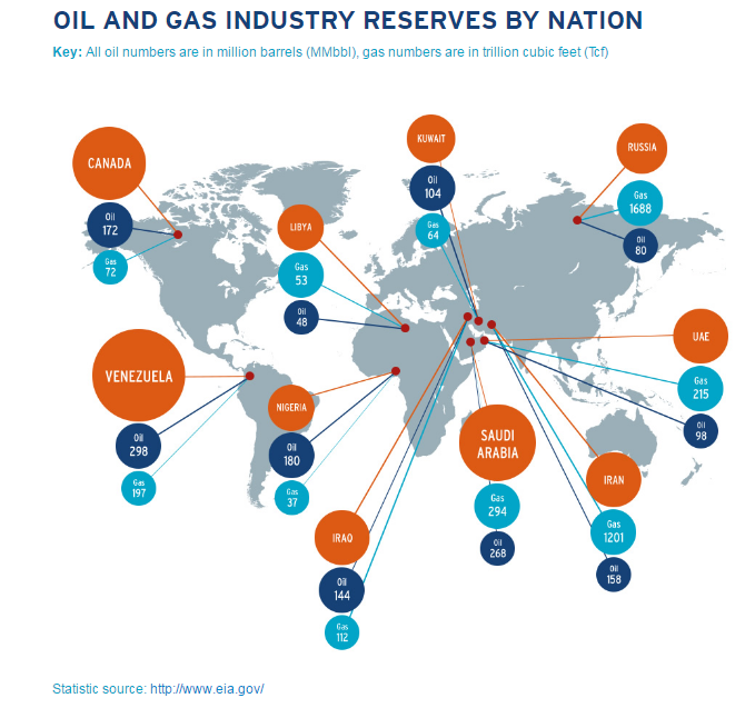 Oil and gas industry reserves by nation.